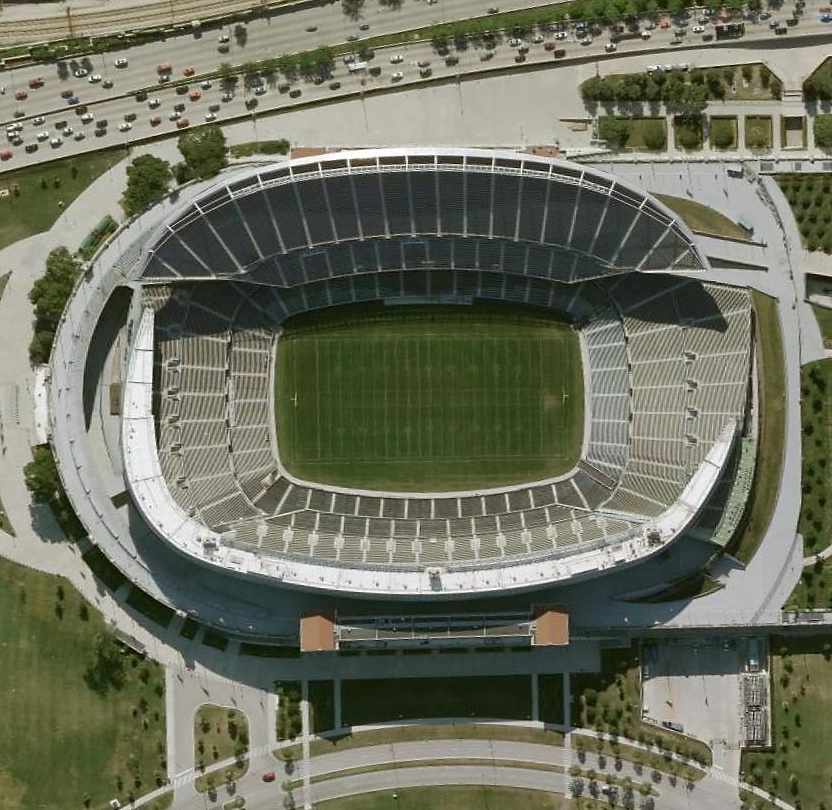 Soldier Field, Chicago IL